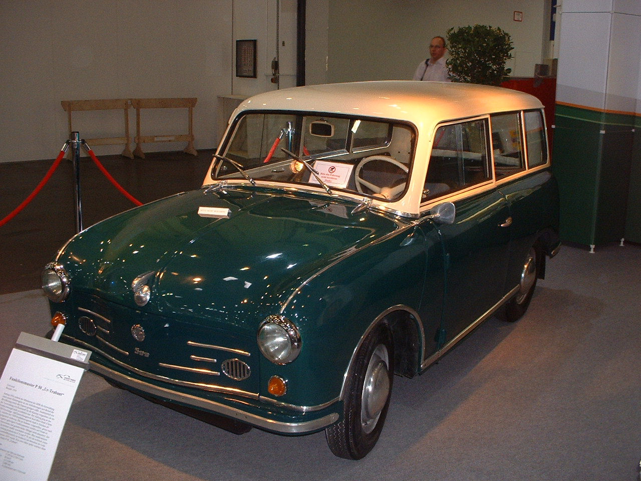 Combi version of the Trabant's predecessor. Techno Classica Essen - April 2007